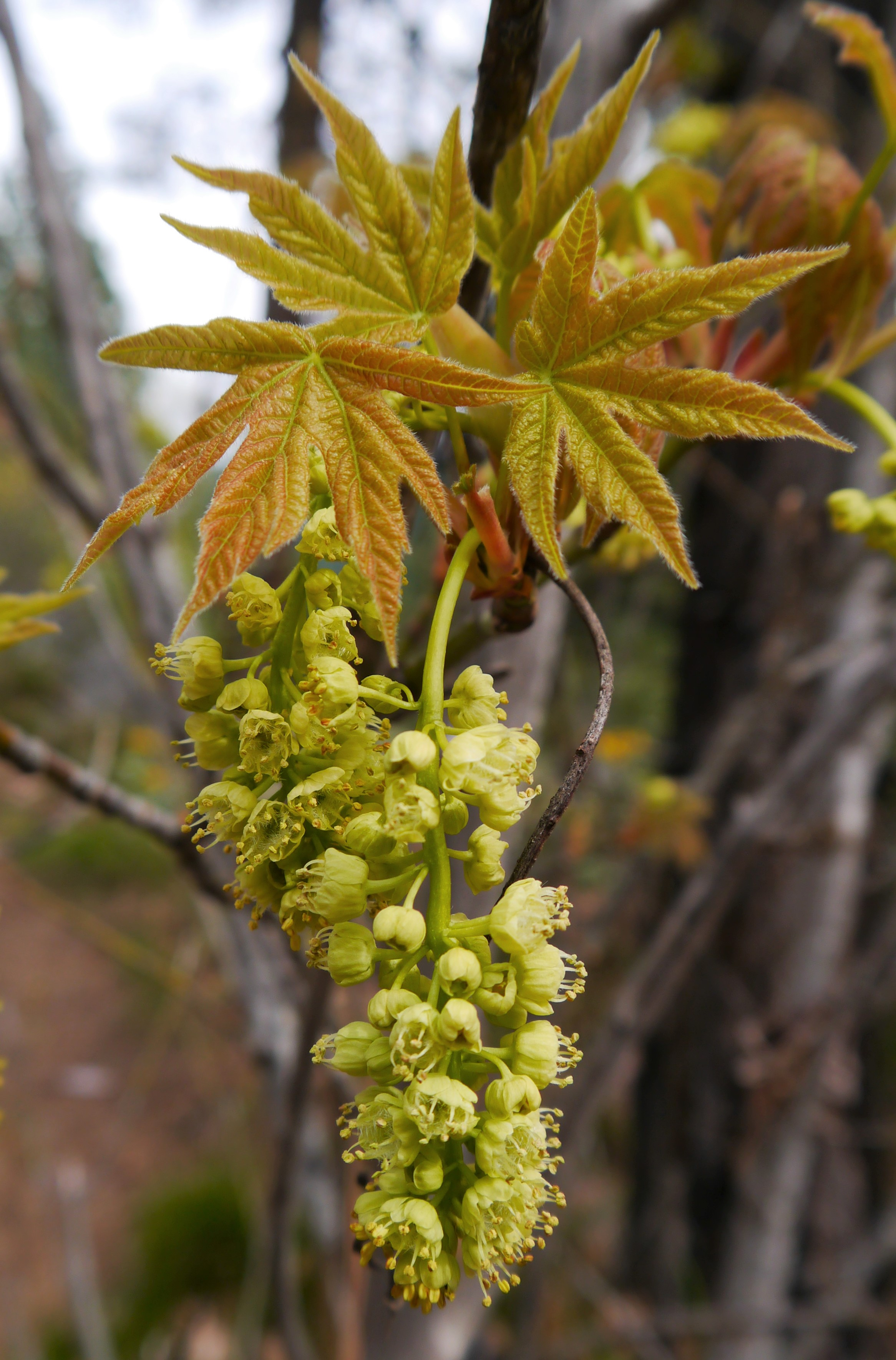 Acer macrophyllum in flower, Icicle Canyon, Chelan County Washington